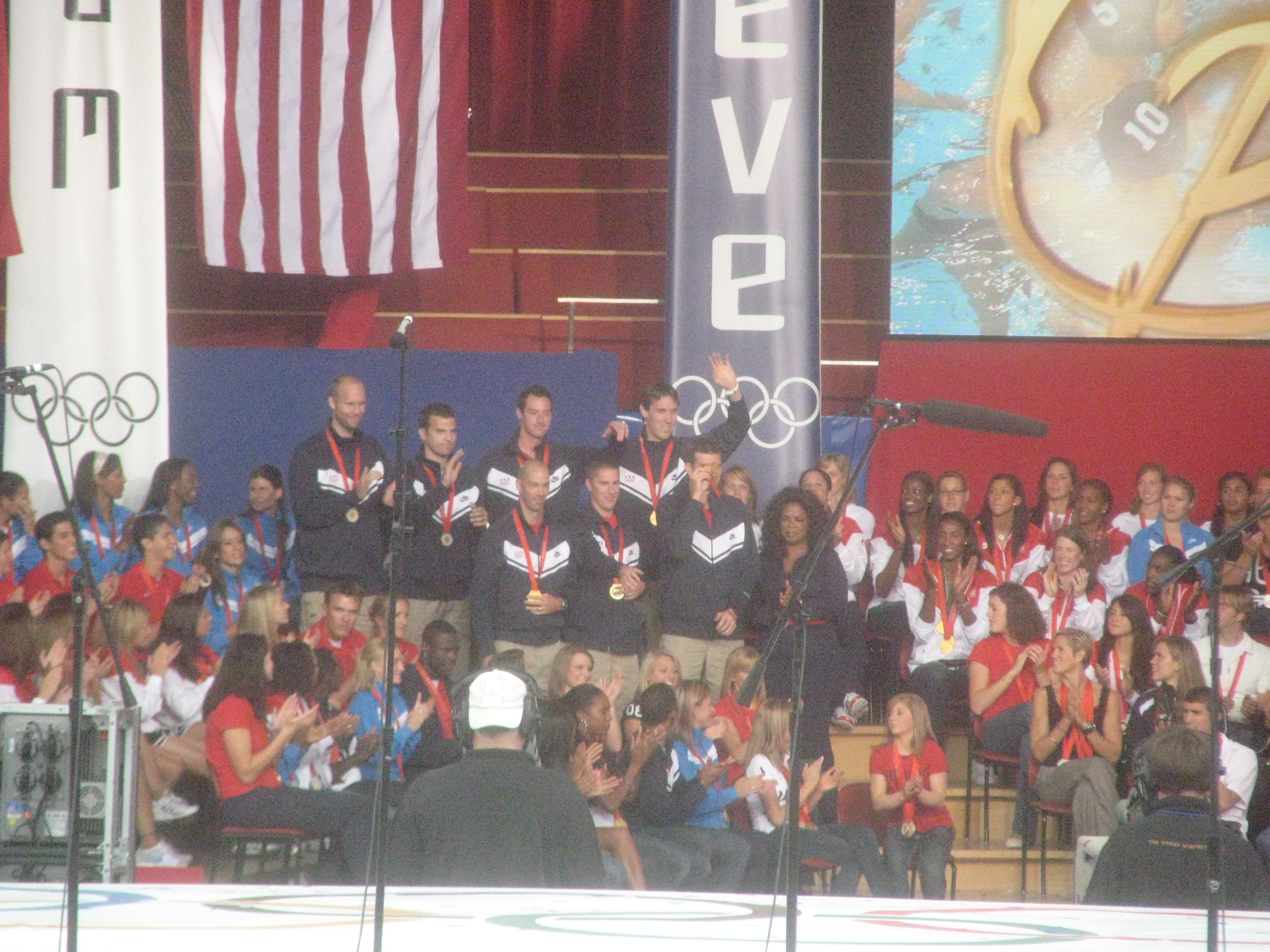 Oprah Winfrey and the 2008 Olympic men's volleyball team at September 3, 2008 taping of season-opening September 8 Oprah Winfrey Show at the Jay Pritzker Pavilion